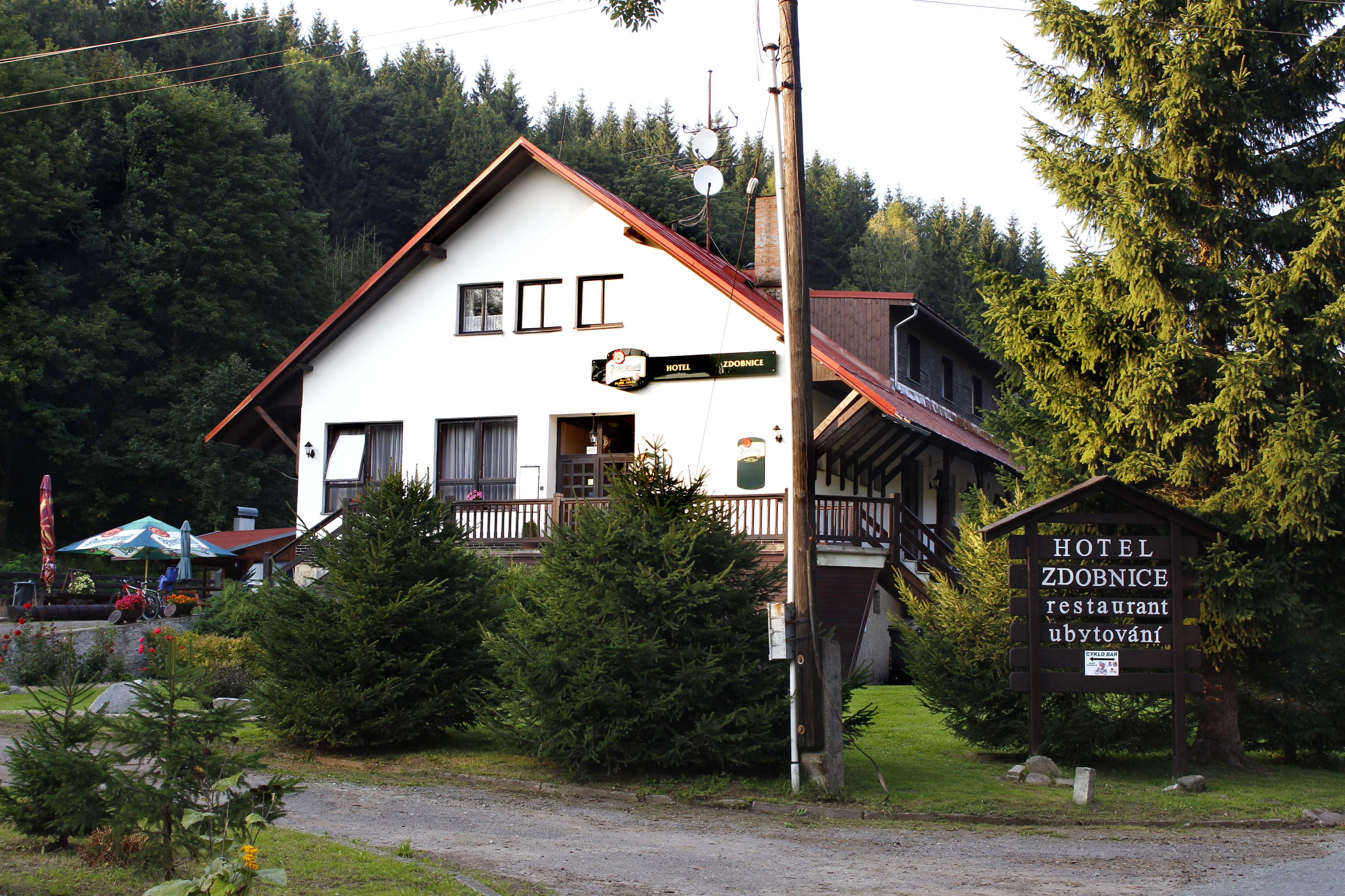 Hotel in Zdobnice, Czech Republic